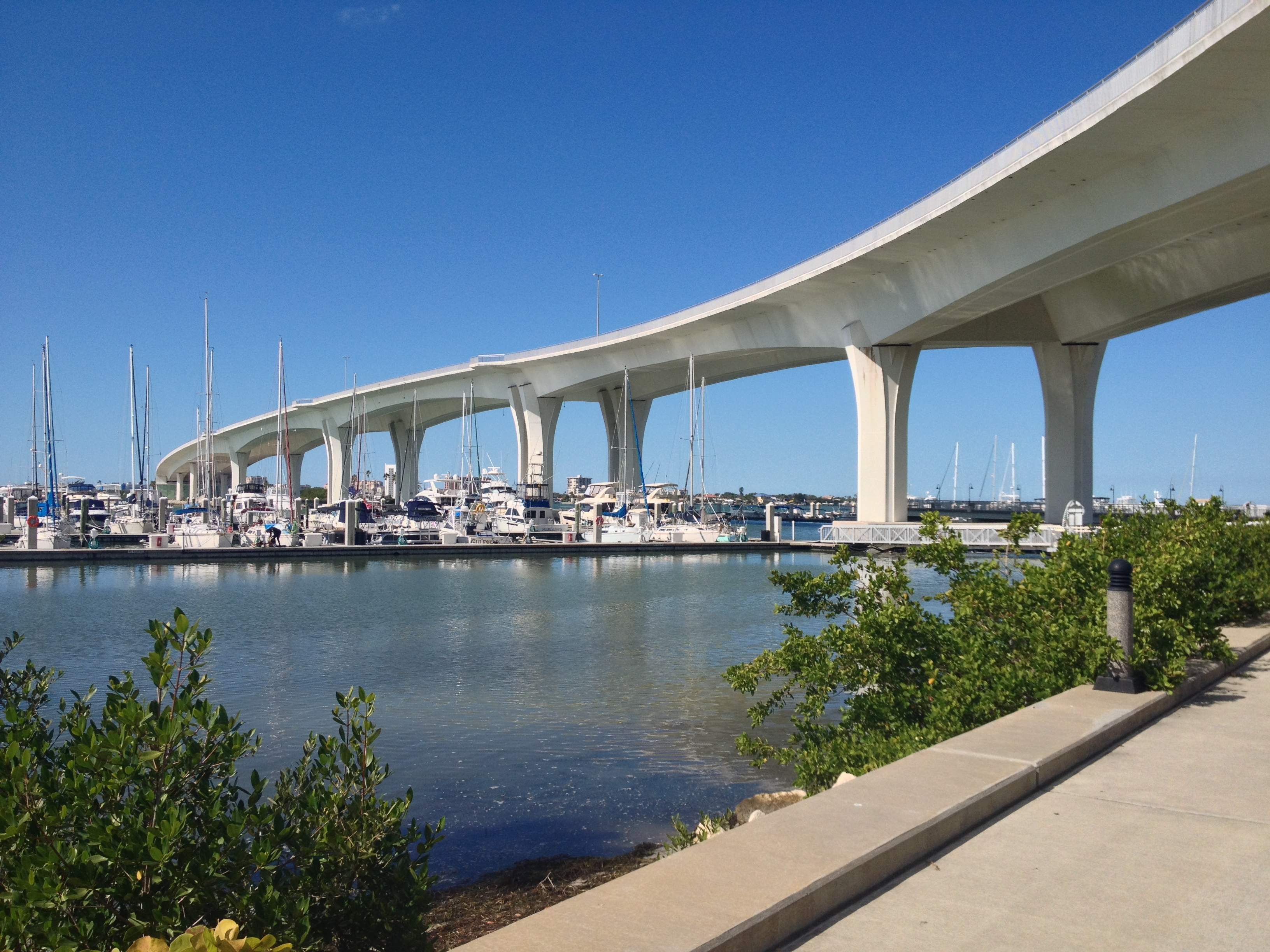 Main bridge of the Clearwater Memorial Causeway, viewed from the pedestrian/cyclist path on the north side of the bridge (image taken from the eastern approach looking west/northwest)